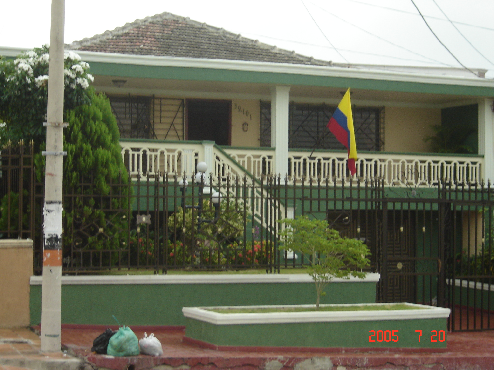 A house